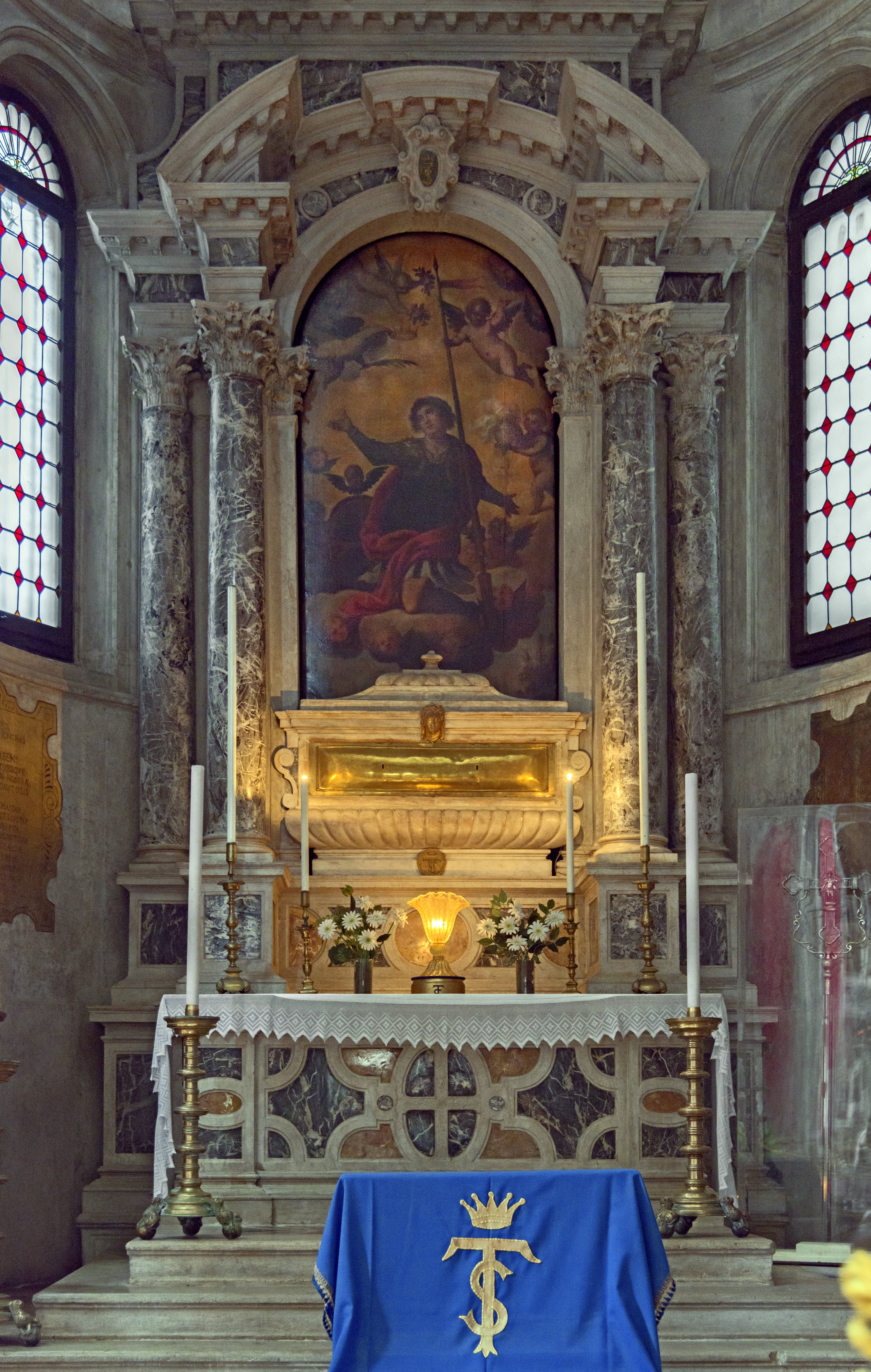 Church of San Salvador, in Venice, the chapel on the right of the choir is dedicated to San Teodoro or San Todaro, the first patron of Venice. On the altar - the urn containing the saint's body was brought in 1257 by Jacopo Dauro Messembria of the Church in Asia Minor to Constantinople; his brother Marco, ten years later led him to Venice, and donated to the church of San Salvador.